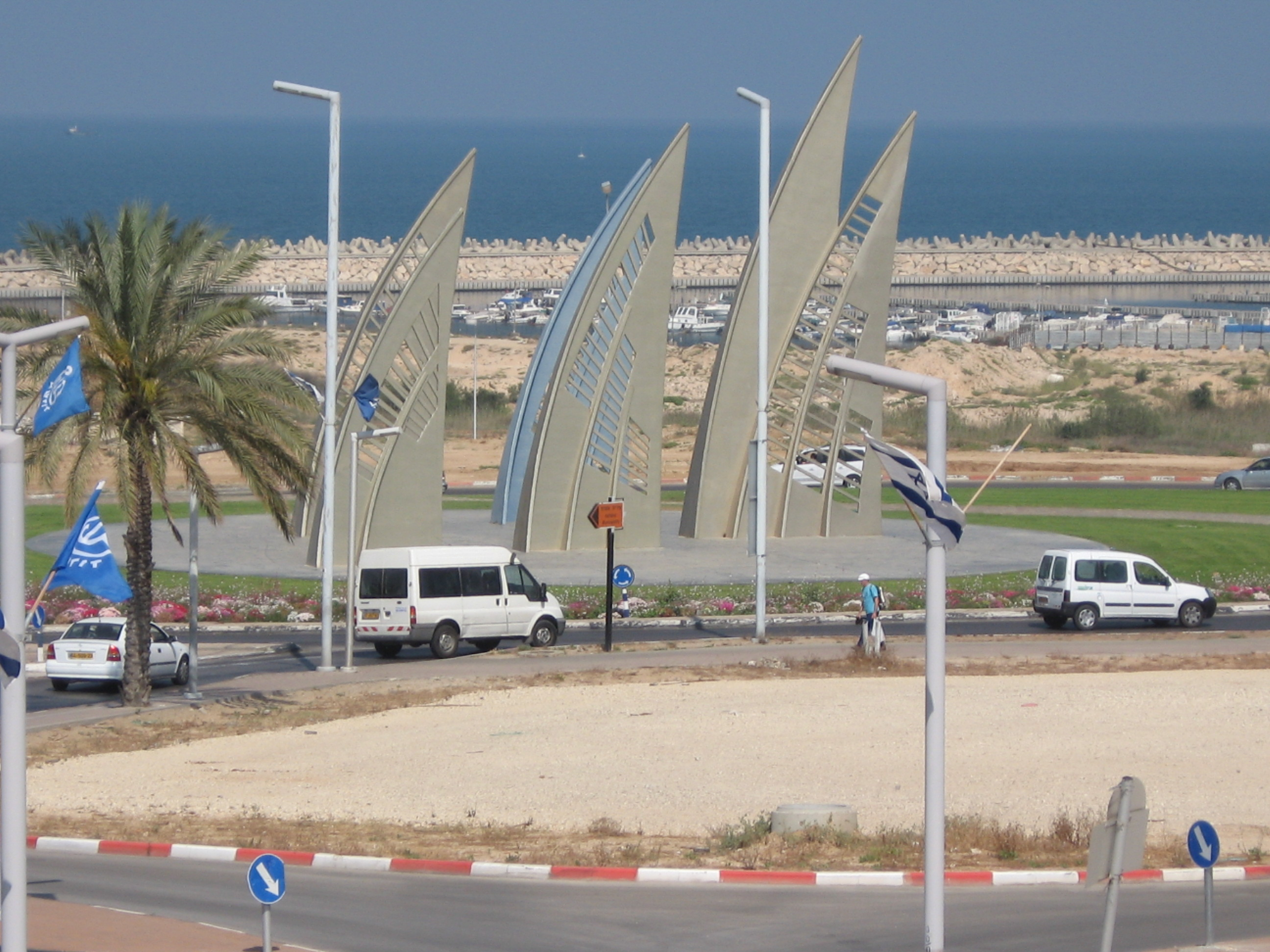 The view toward the marina.